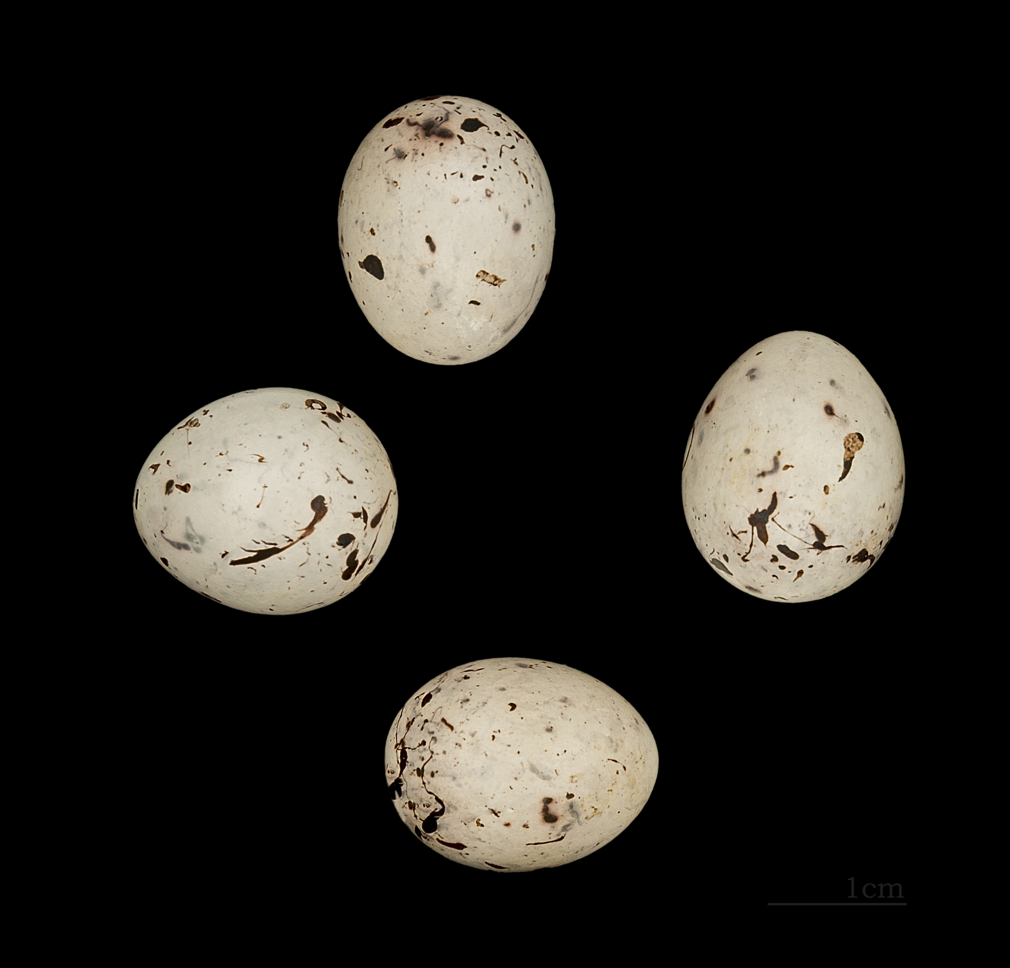 Egg of Ortolan Bunting. Collection of Jacques Perrin de Brichambaut.